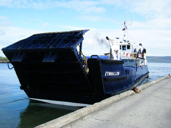 The Orkney Ferries vessel MV Eynhallow departing at Tingwall, Orkney. IMO Number: 8960880 MMSI Number: 235019174 Callsign: MGRN9 Length: 29 m Beam: 8 m